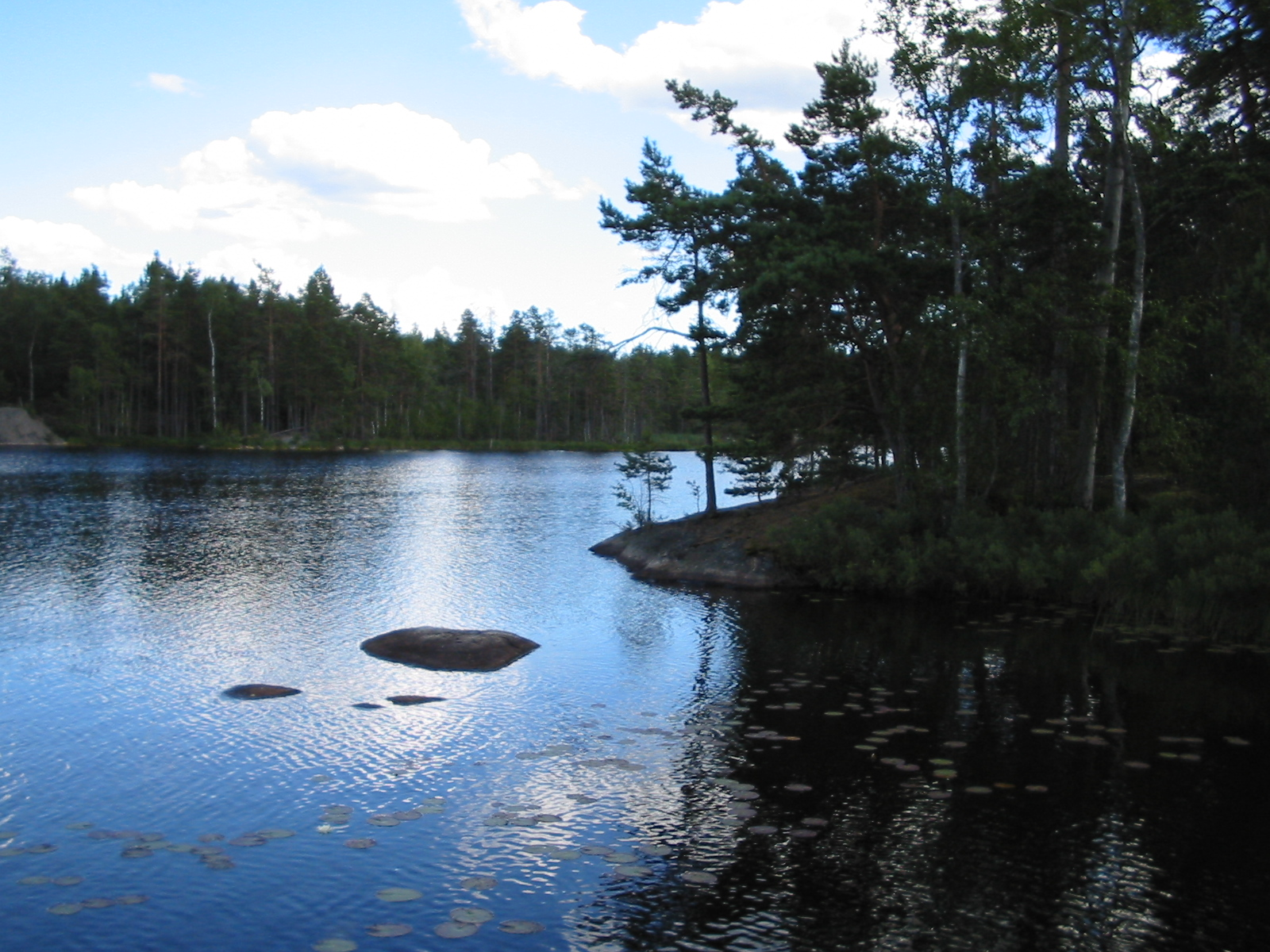 Lake Årsjön in Tyresta national park, Sweden. View south-east along a peninsula from the western shore.